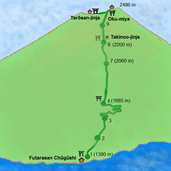 Japan: main trail's stations of the Nantai volcano in Nikkō (Tochigi prefecture).